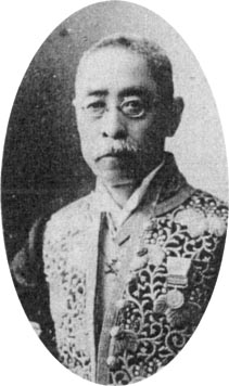 Hatsune Nakano, Director of Koshu Gakko.